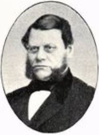 Clas Wilhelm Eneberg (1814-1871), Swedish professor